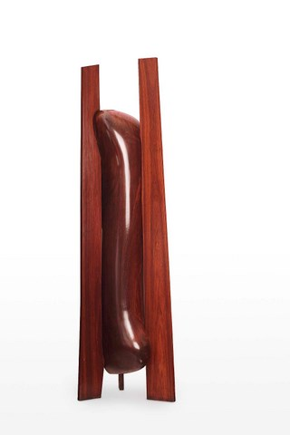 Gustav Ritter. Tronco entre sarrafos. Pau-brasil